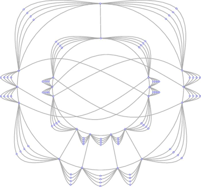 A graph from "Odd Crossing Number Is Not Crossing Number by Pelsmajer et al., Discrete & Computational Geometry March 2008, Volume 39, Issue 1-3, pp 442-454" showing that the pair crossing number of a graph is not always equal to the odd crossing number.